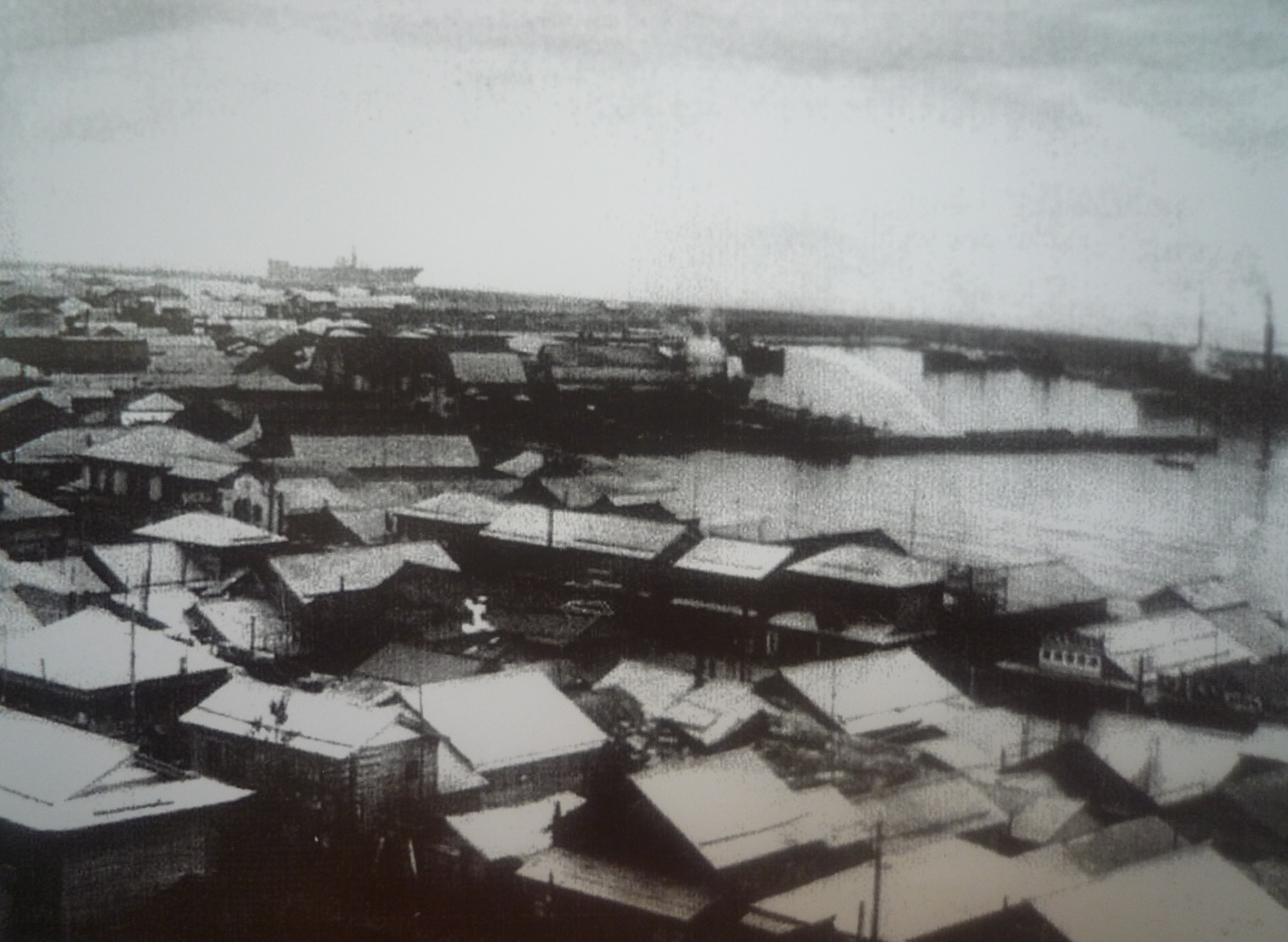 Center of town (Maoka, 1940-1944s years)